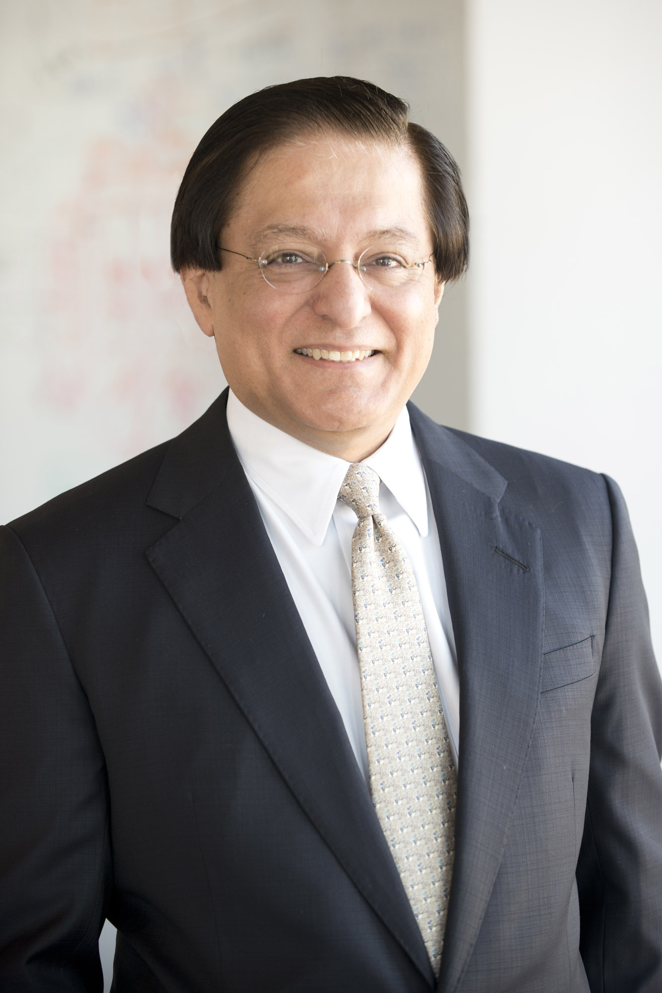 Vikas Kapoor, CEO of Mezocliq, in 2017